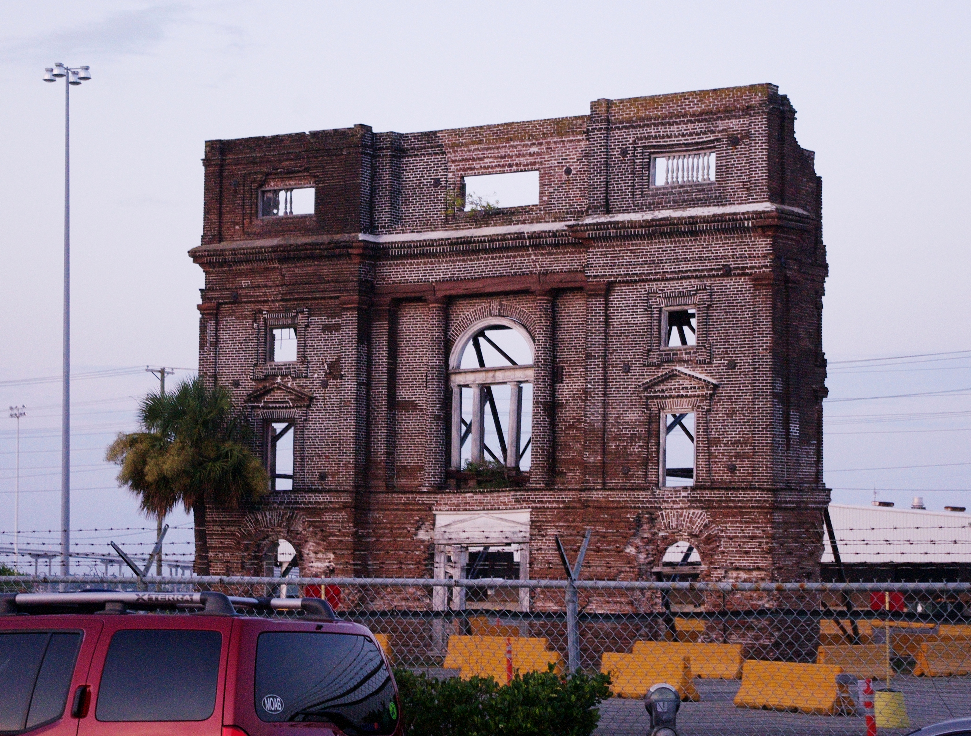 The facade of Bennett's Rice Mill facing Washington Street in Charleston, South Carolina. This mill was built in 1845, and mostly destroyed by Hurricane Donna in 1960.